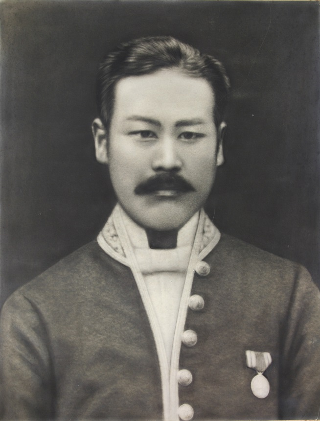 Japanese jurist, Yashiro Misao (1852 – 1891)